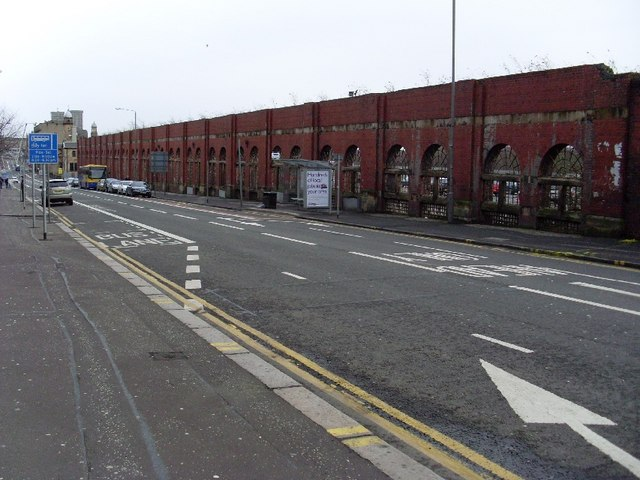 Duke Street, Glasgow Main road in the East End of Glasgow. The building across the road is now only a facade - behind it is the park and ride for High Street train station. This has now been rebuilt in to student accomidation